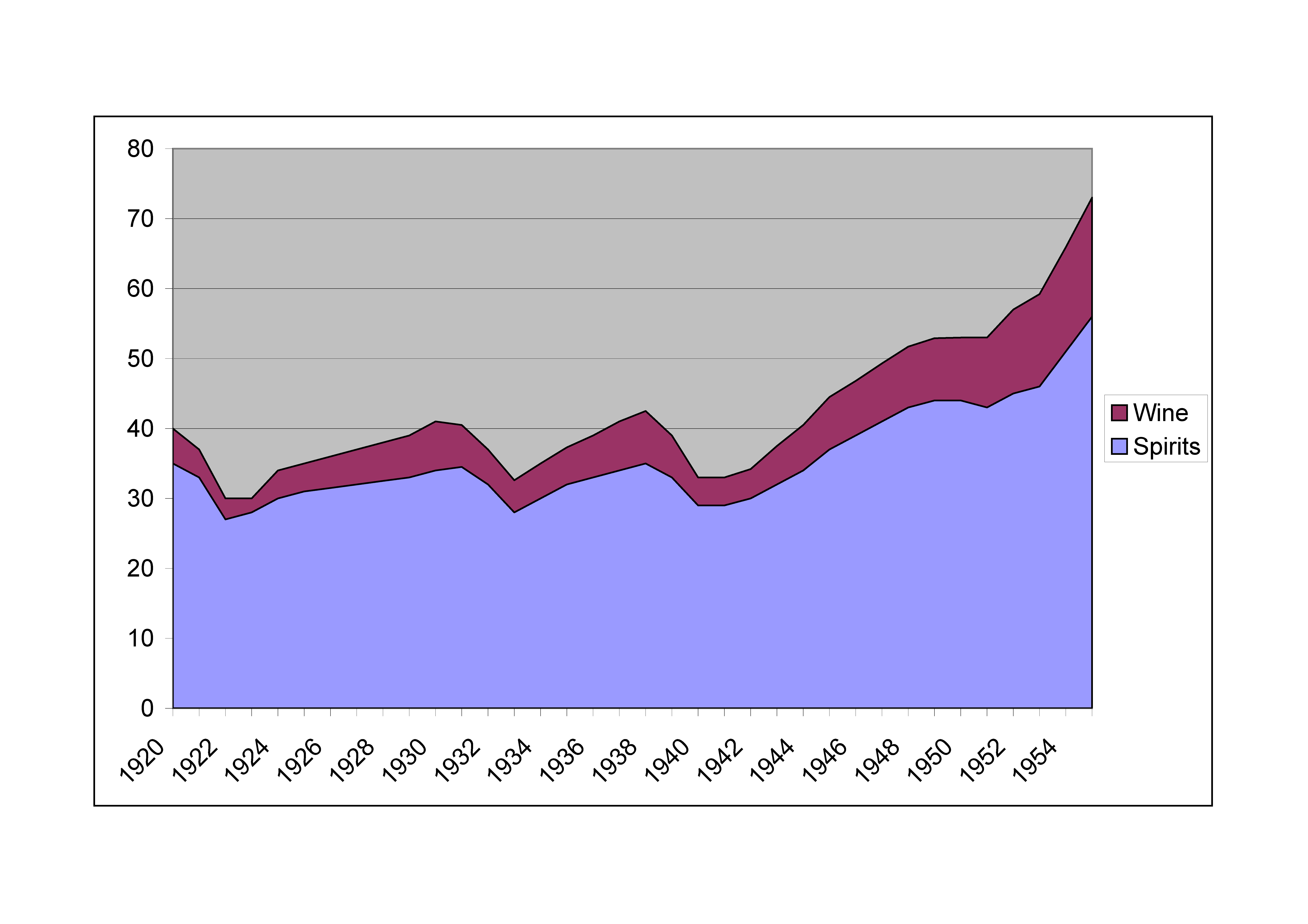 Registered consume of spirits and wine (million litres alcohol) i Sweden 1920-1955 - Source: "1955 1965 10 år utan motbok" Systembolaget 1965.